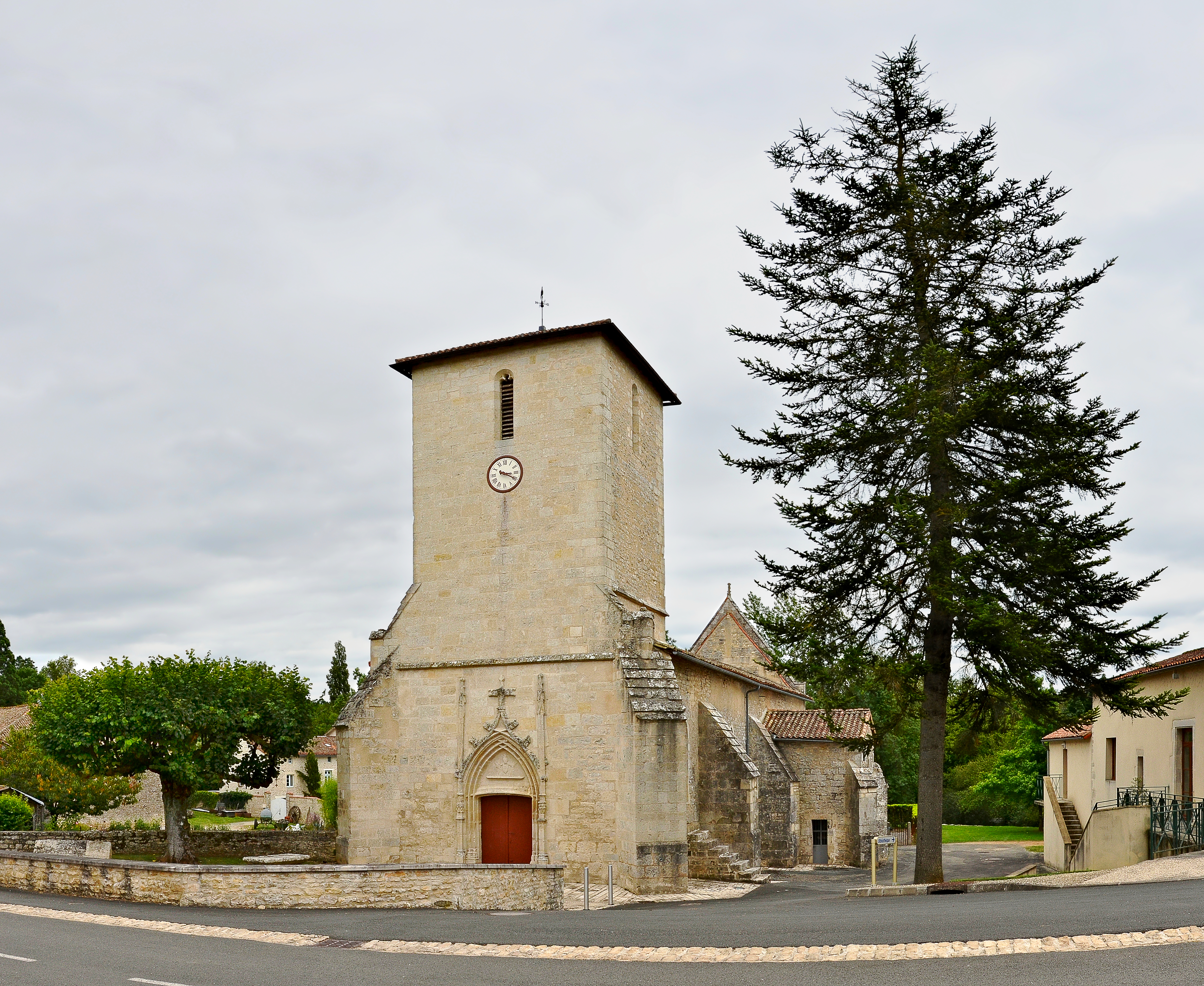 Church (12th and 15th centuries) and village square, Saint-Macoux, Vienne, France.